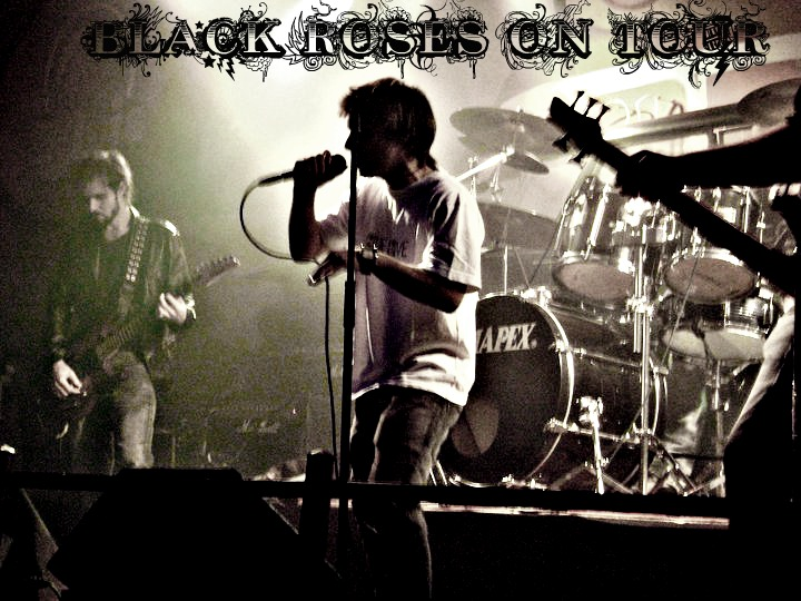 Black Roses live 2011 Argentina